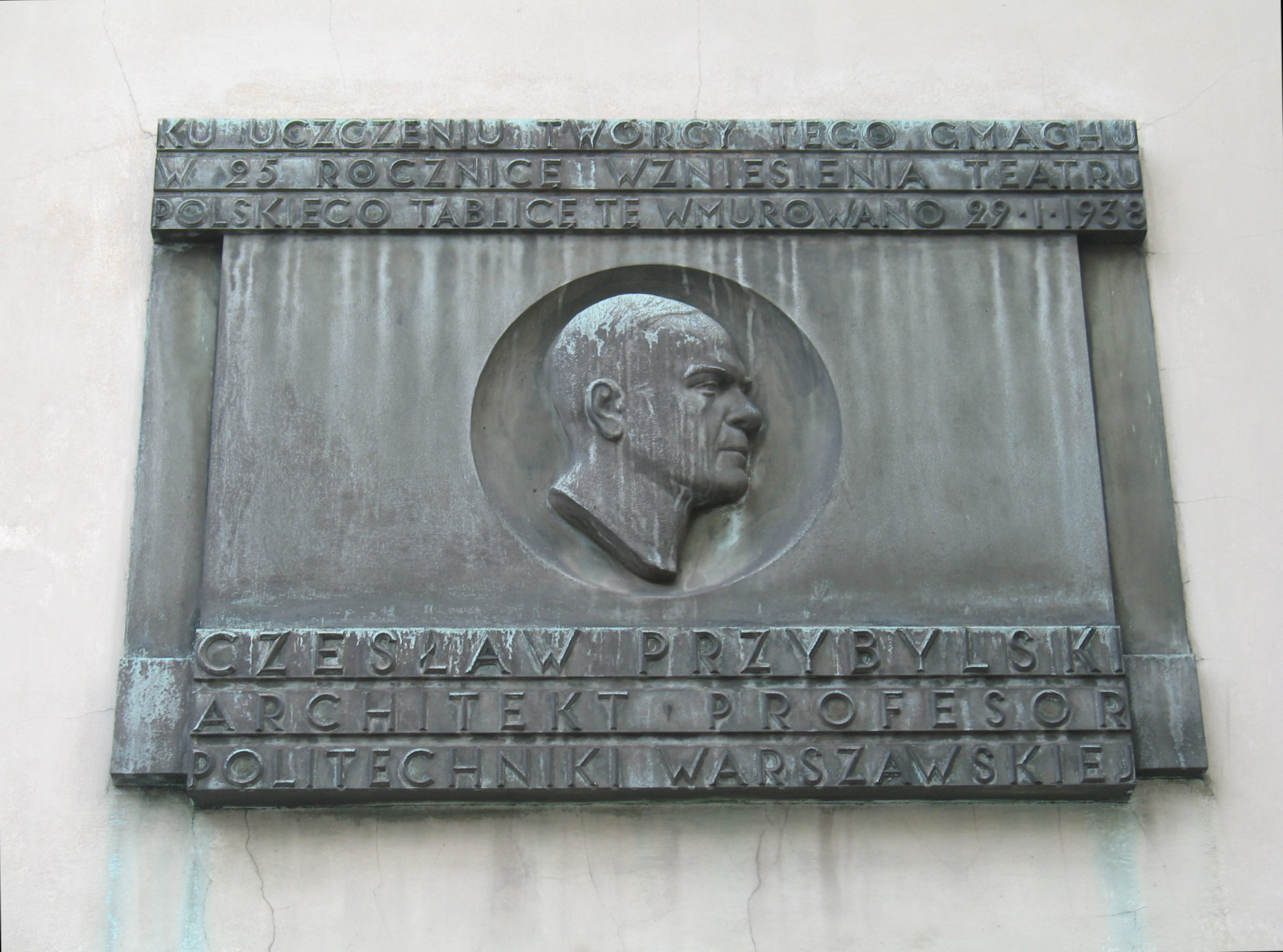 Plaque commemorating the 25th anniversary of the construction of the Polish Theatre in Warsaw, Poland